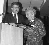 Anna Spitzmüller receiving recognition of her services to Hope College students